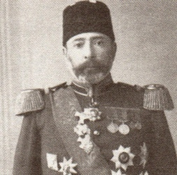 Ali Rizah Pasha (1860-1932)